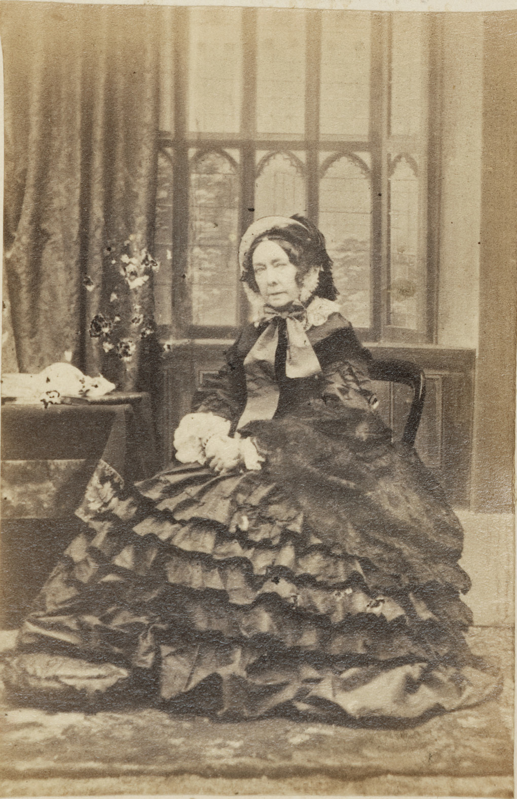 Depicted person: Emily Lamb, Lady Cowper – British countess